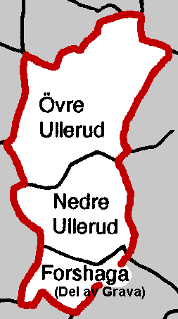 old municipalities of Forshaga